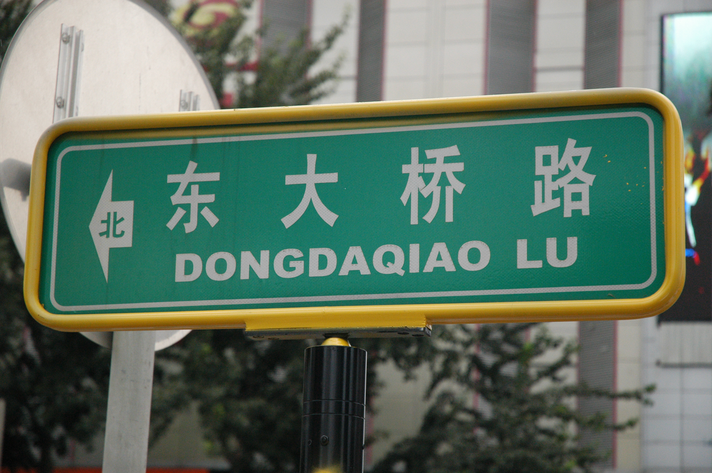 Dongdaqiao Lu sign somewhere in Beijing.